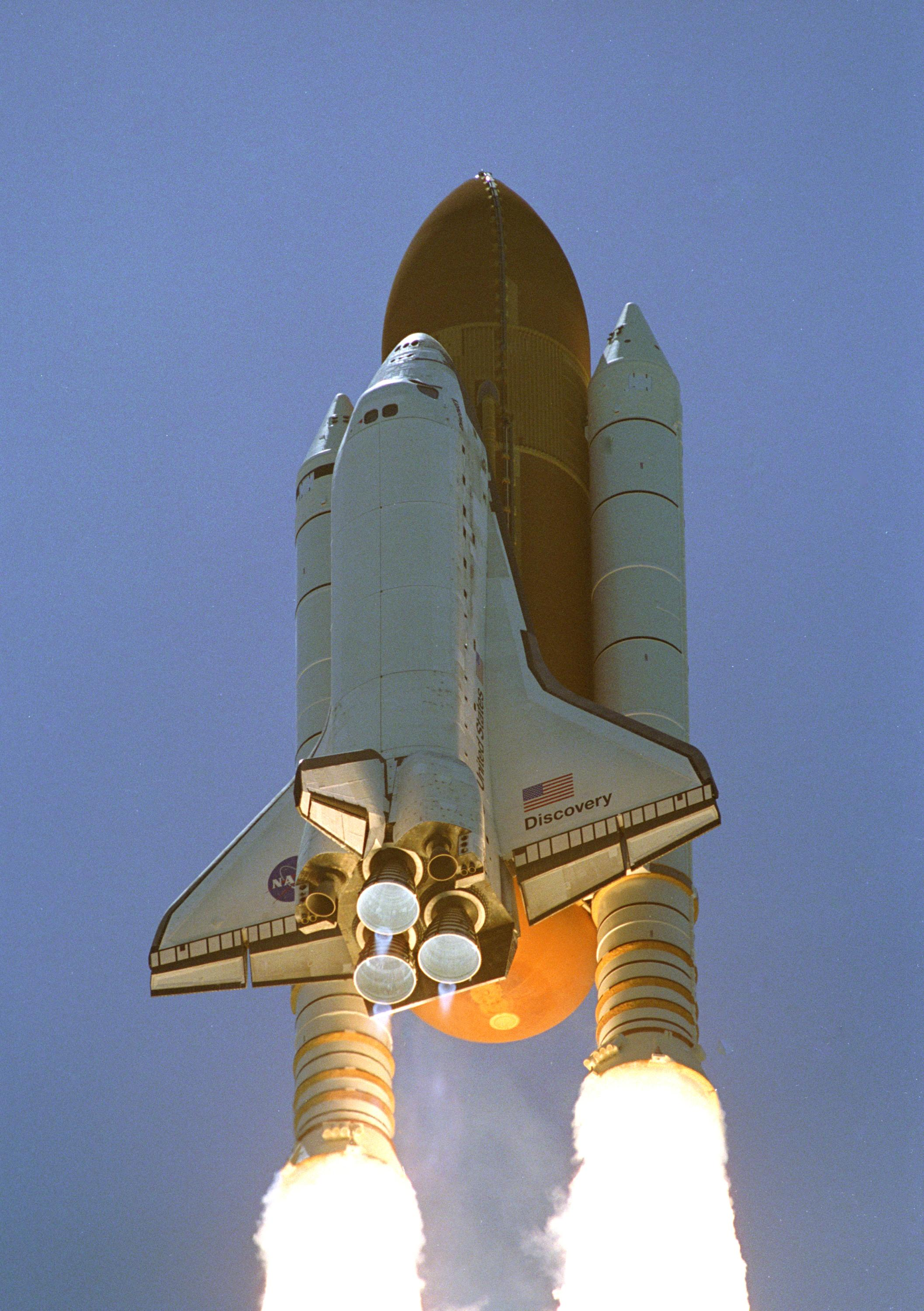 KENNEDY SPACE CENTER, FLA. – With rockets glaring behind it and hugging the orange external tank, Space Shuttle Discovery leaps into the clear blue sky on mission STS-121. During the 12-day mission, the STS-121 crew of seven will test new equipment and procedures to improve shuttle safety, as well as deliver supplies and make repairs to the International Space Station. Landing is scheduled for July 17 at Kennedy's Shuttle Landing Facility.